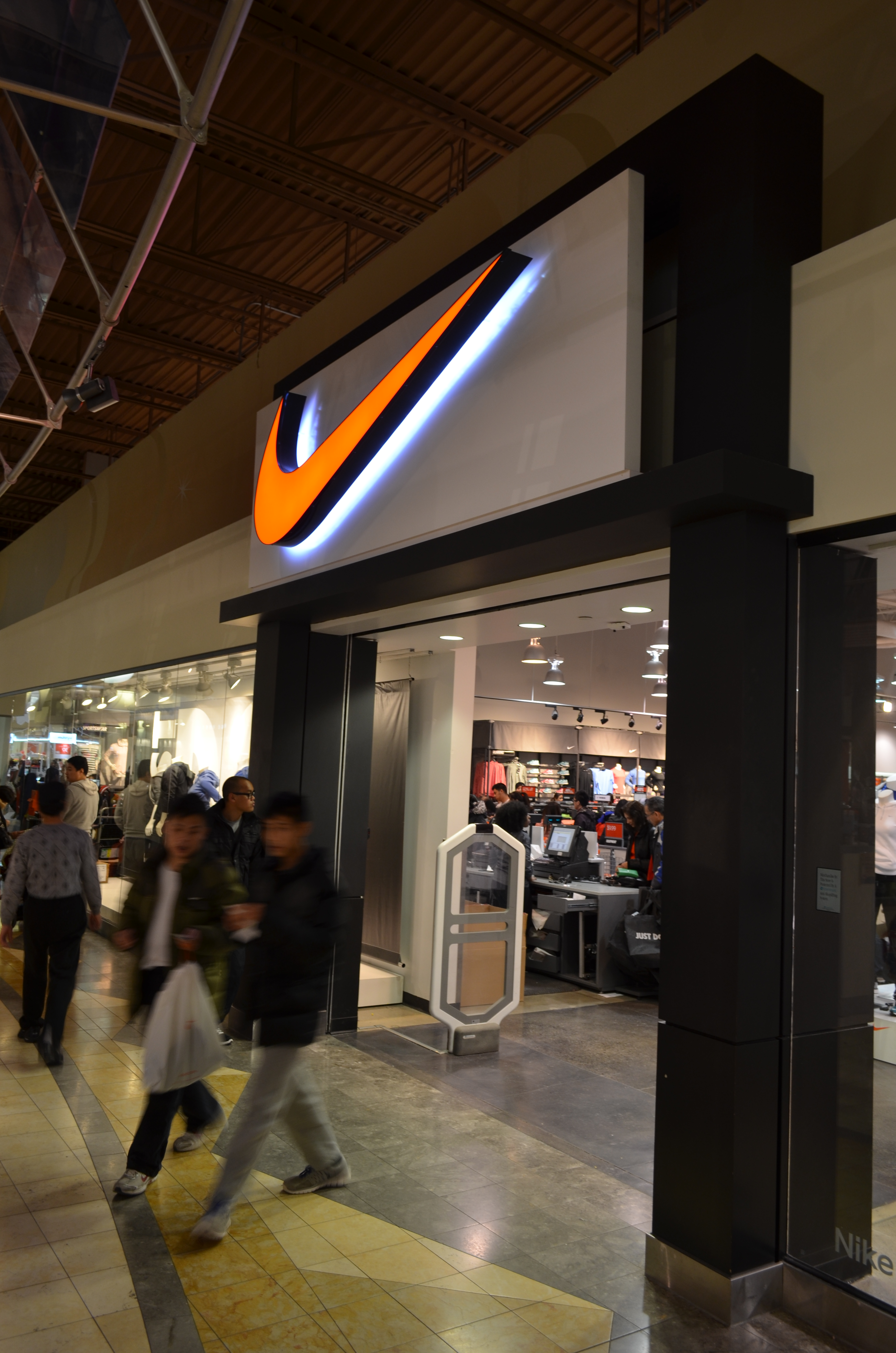 nike store vaughan mills